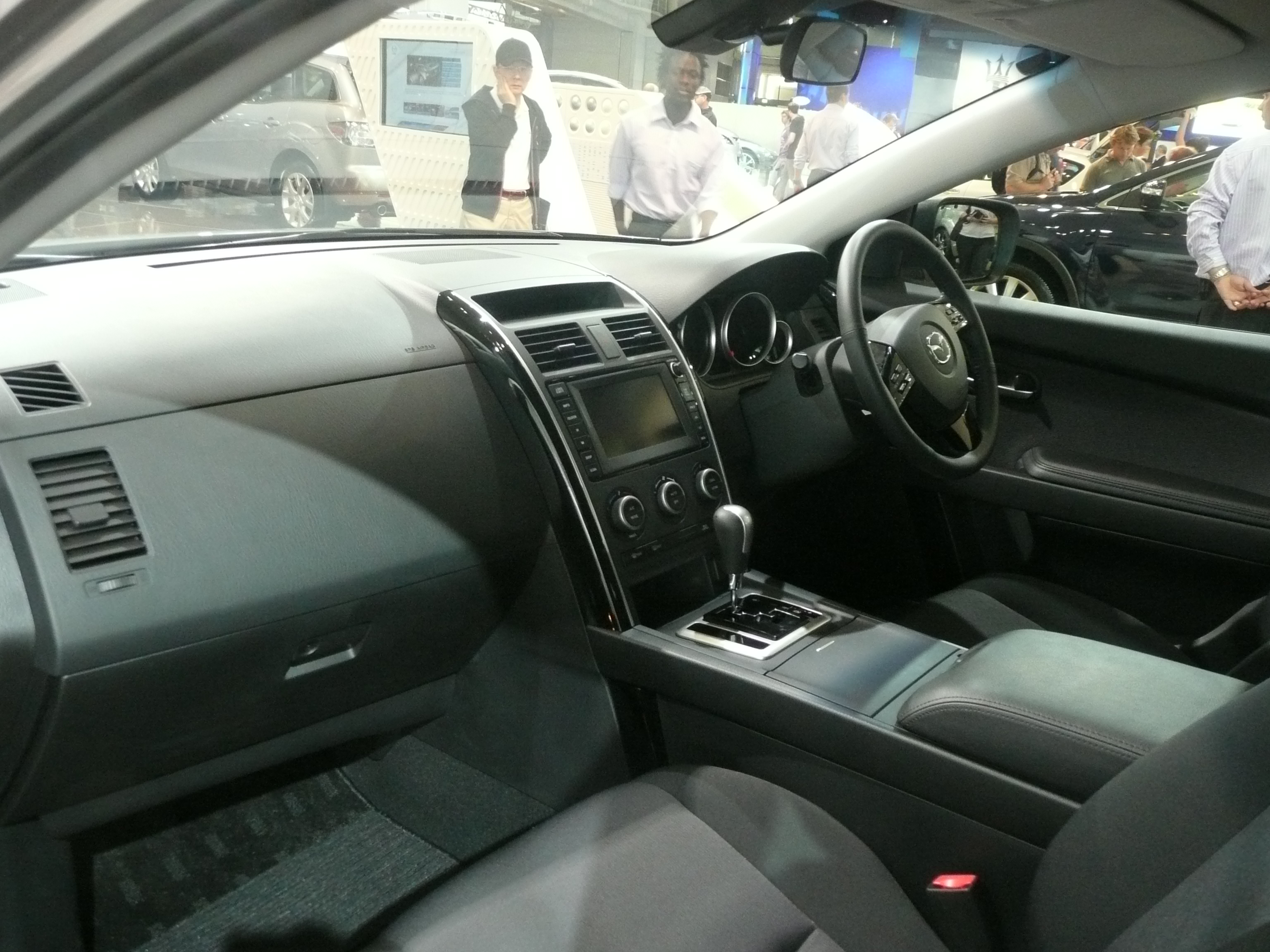 2008 Mazda CX-9 (TB Series 1) Classic AWD wagon. Photographed at the 2008 Australian International Motor Show, Sydney, New South Wales, Australia.